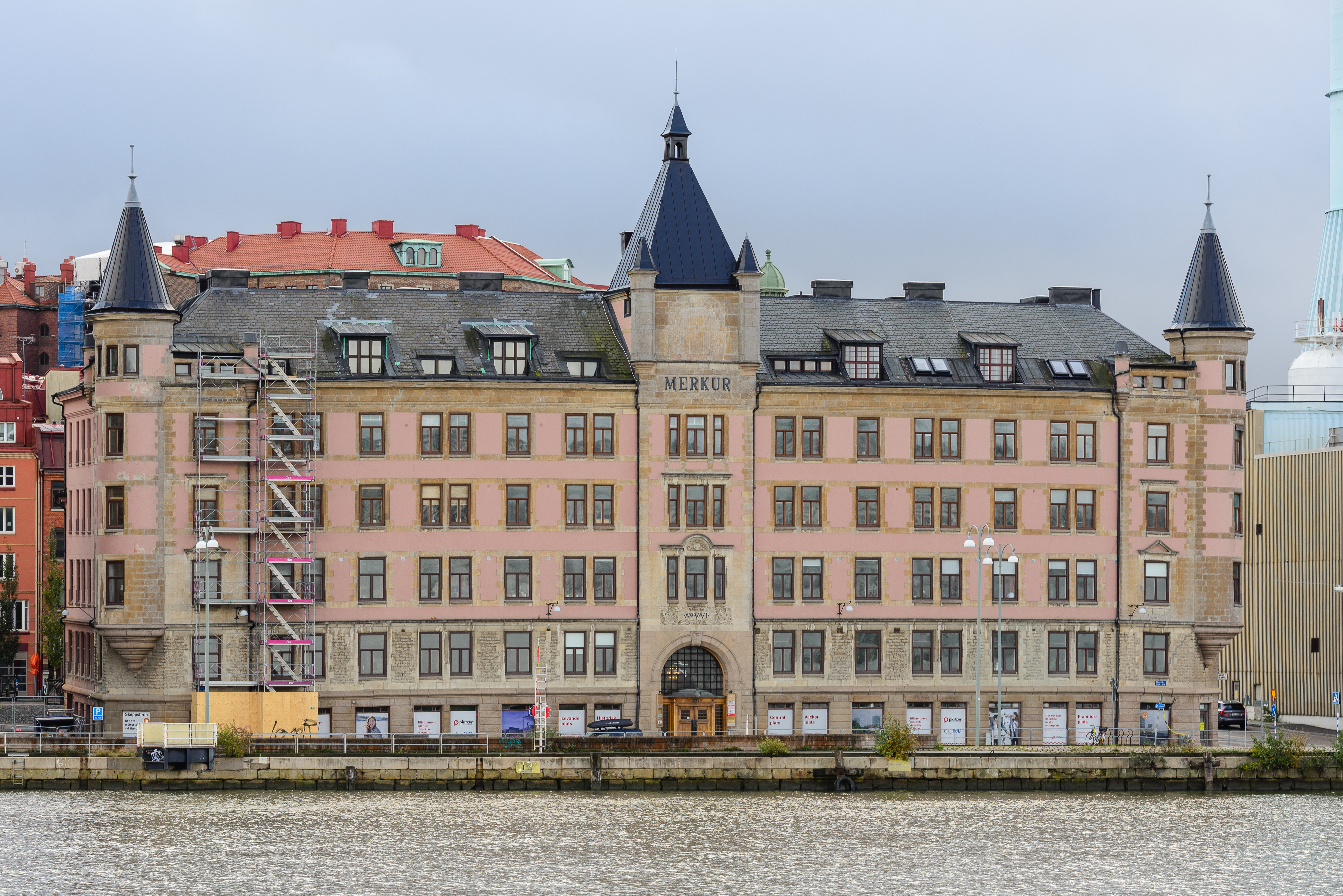 Merkurhuset, a historic office building in Gothenburg, Sweden.